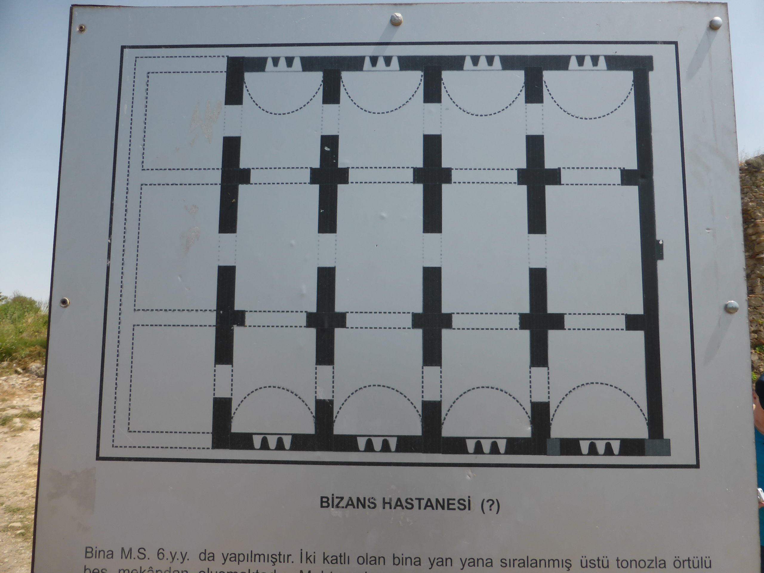 Floor plan of the Byzantine building